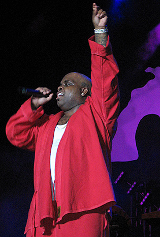 CeeLo Green at a Gnarls Barkley concert